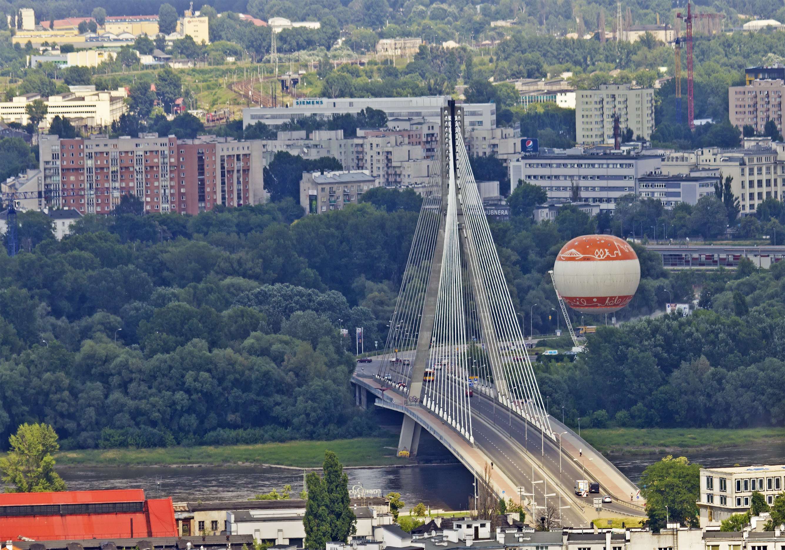 View from the viewing desk of the Palace of Culture and Science in Warsaw (Poland) – Świętokrzyski Bridge